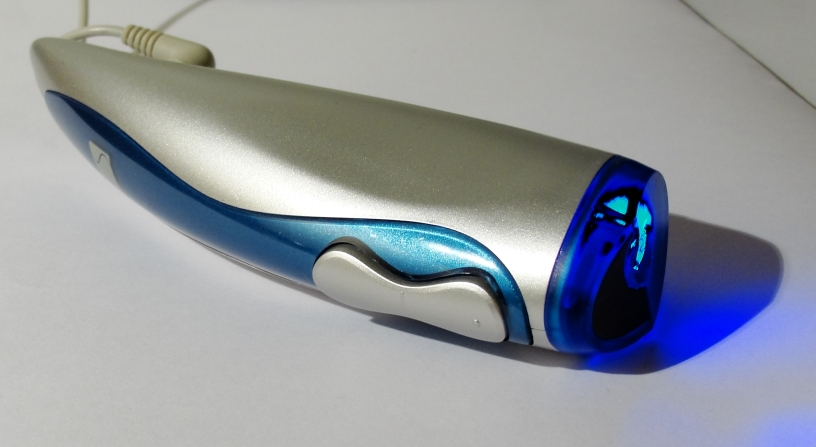 The blue LED based optical mouse Salient V-Mouse VM-101.